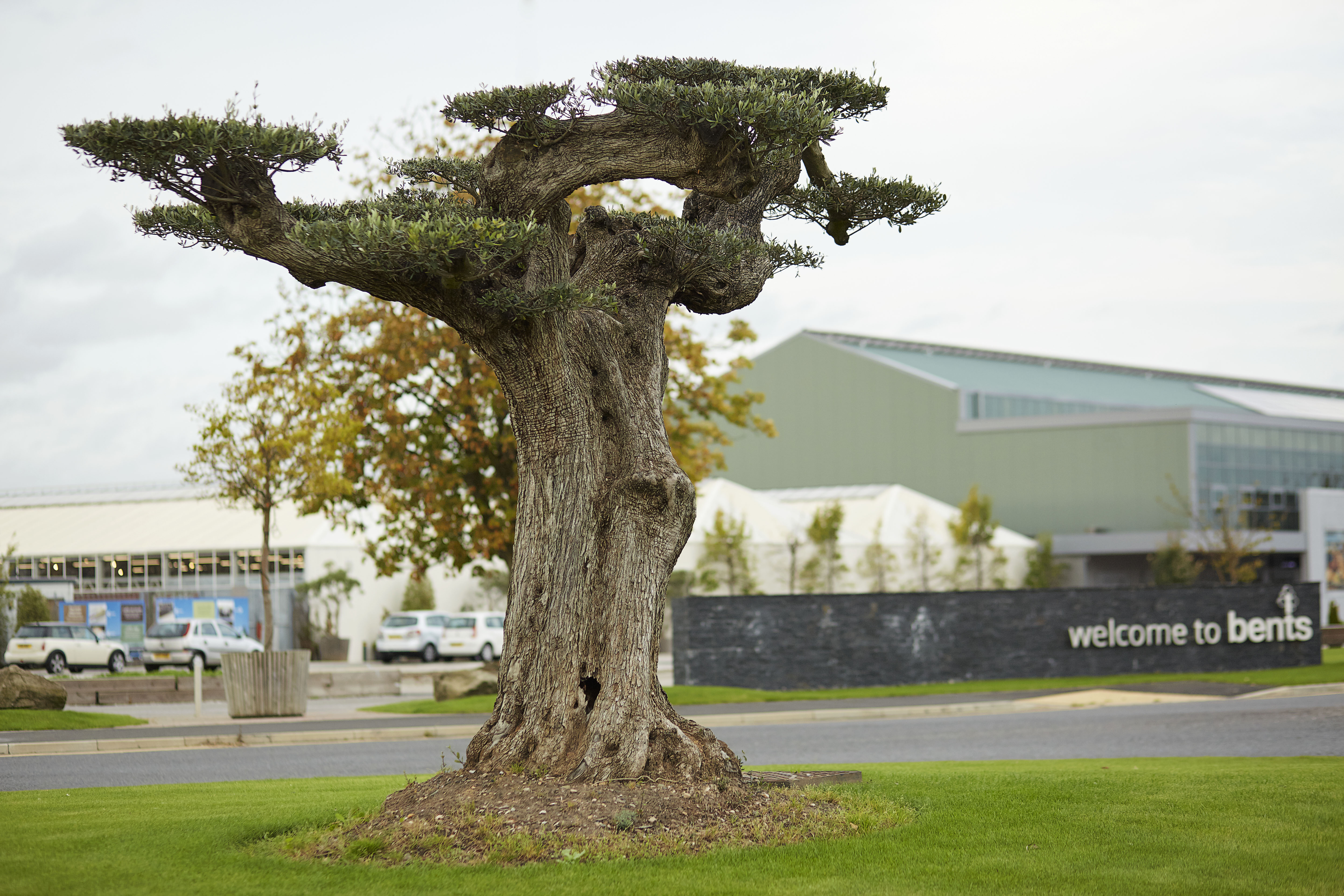 Bents Garden & Home